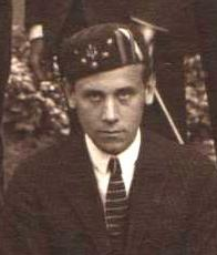 Belgian law students at Louvain University (around 1921-1922) five of them wearing the "calotte" skull-cap.